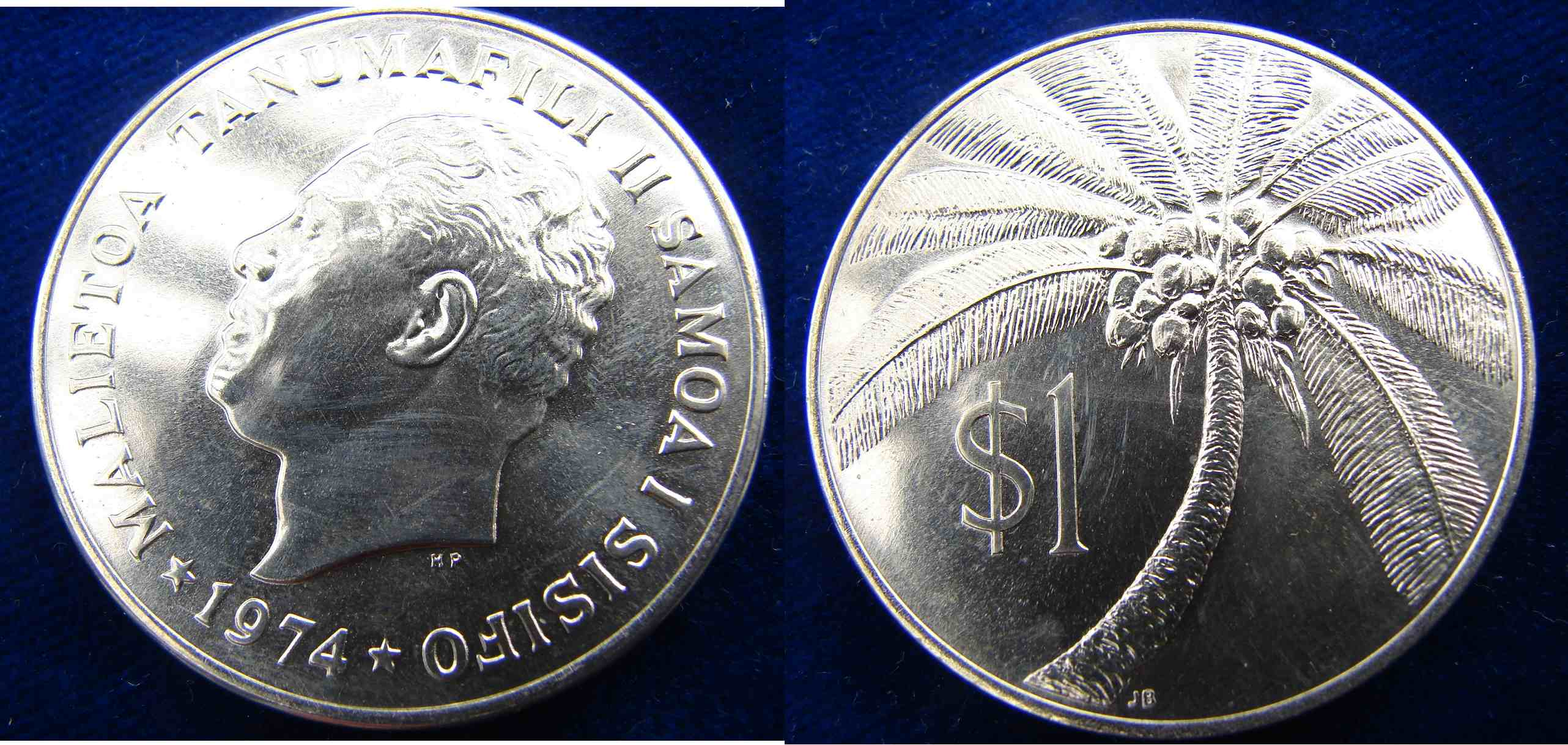 Western Samoa 1 Tala 1974 Coin